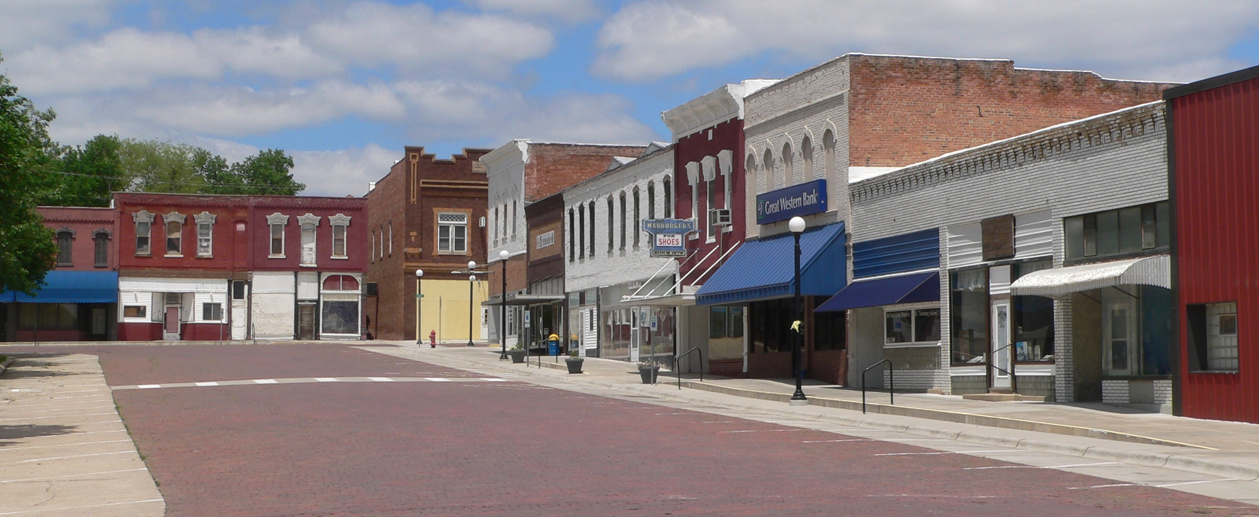 Humboldt, Nebraska: East Square, looking north-northeast from 3rd Street. Buildings facing the camera, left of center, are on the north side of 4th Street.